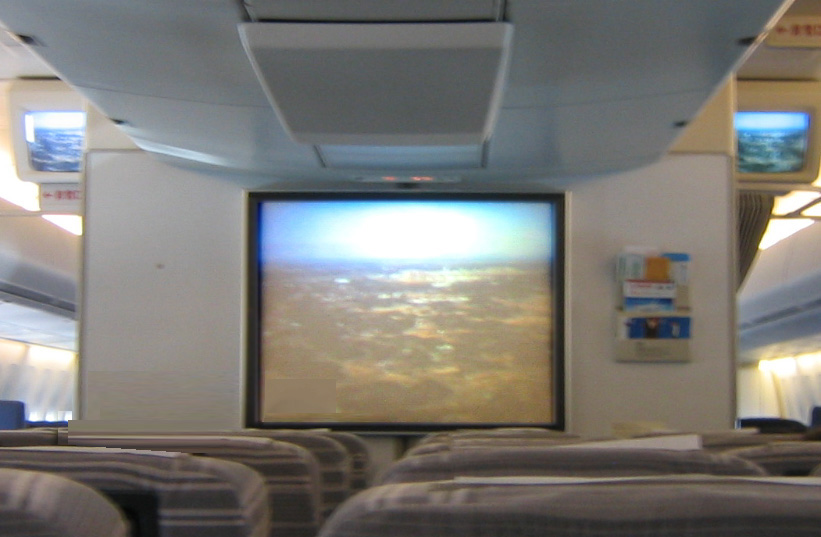 JAL